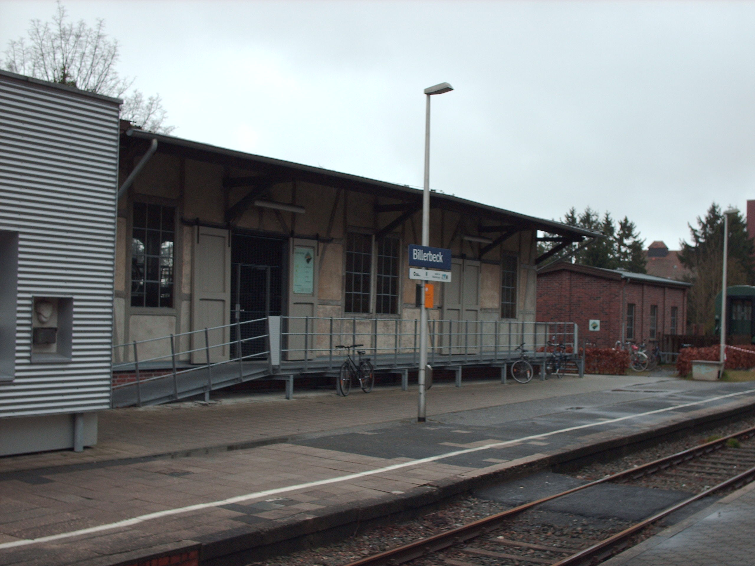 Billerbeck station, Billerbeck, Germany check usage